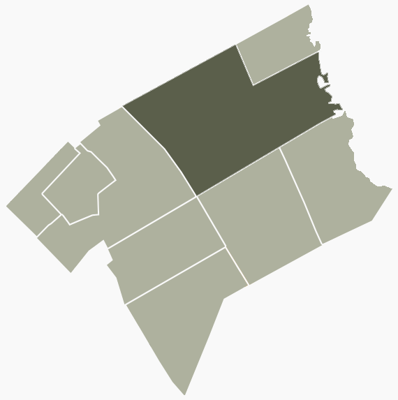 Map of the Vicente López's neighborhood, Olivos.